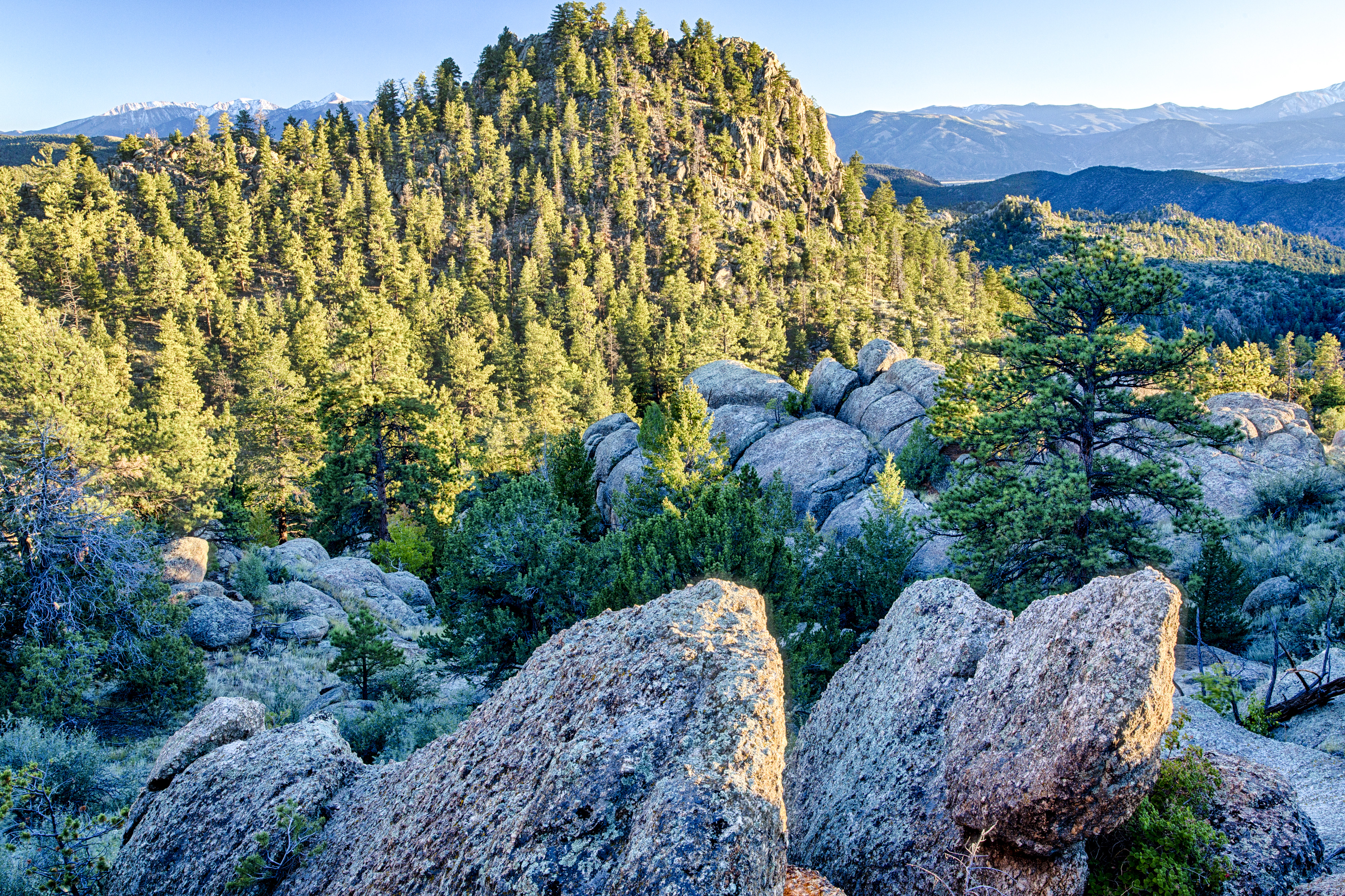 The Browns Canyon National Monument in Colorado will protect a stunning section of Colorado’s upper Arkansas River Valley. Located in Chaffee County near the town of Salida, Colorado, the 21,586-acre monument features rugged granite cliffs, colorful rock outcroppings, and mountain vistas that are home to a diversity of plants and wildlife, including bighorn sheep and golden eagles. Members of Congress, local elected officials, conservation advocates, and community members have worked for more than a decade to protect the area, which hosts world-class recreational opportunities that attract visitors from around the globe for hiking, whitewater rafting, hunting and fishing. In addition to supporting this vibrant outdoor recreation economy, the designation will protect the critical watershed and honor existing water rights and uses, such as grazing and hunting. The monument will be cooperatively managed by the Department of the Interior’s Bureau of Land Management and USDA’s National Forest Service. Learn more: Photos by Bob Wick, BLM